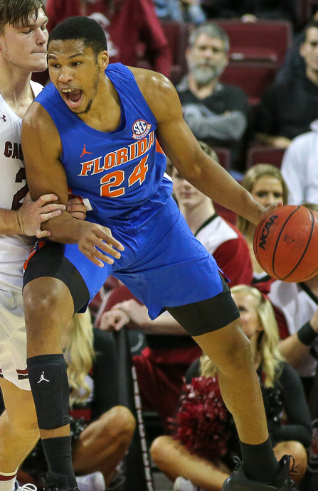 Photo by Chris Gillespie